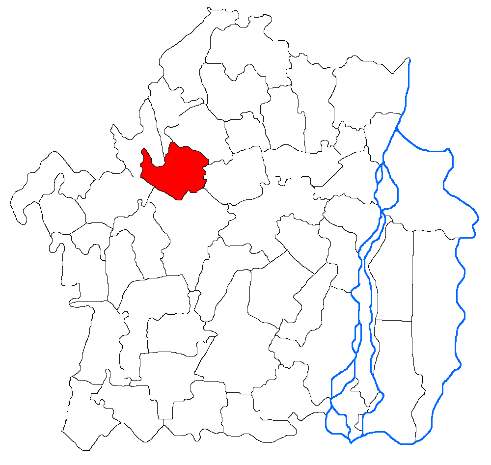 Limits of the commune of Râmnicelu in Brăila County, Romania